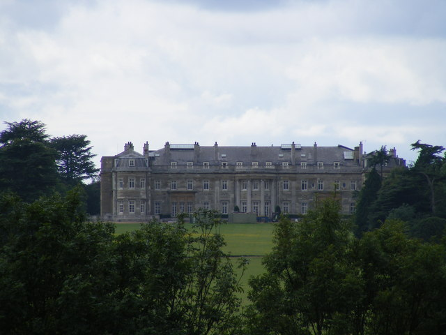 Luton Hoo mansion The photo shows the front elevation of the mansion. Some containers are evident in front of the house - they are probably there in connection with the conversion of Luton Hoo into an exclusive hotel, due to open in autumn 2007.